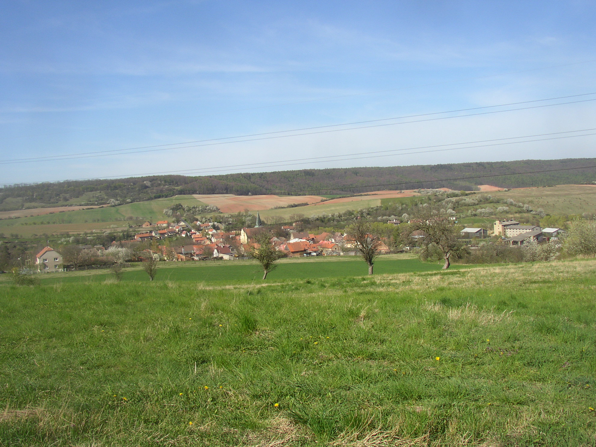 Village of Srbeč, Rakovník District, Czech Republic. An overall view from South.